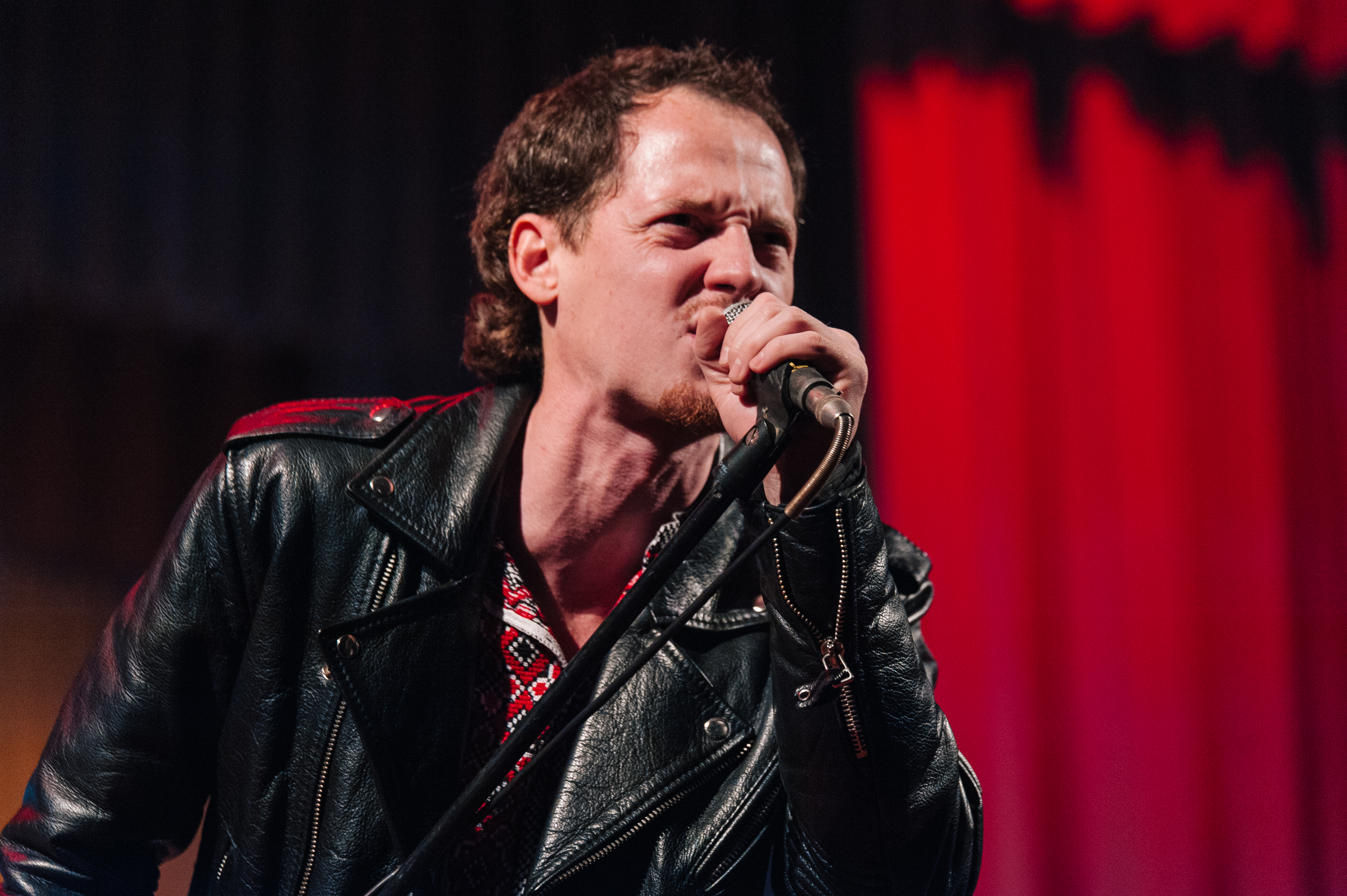 Сергій Василюк, Мелітополь 2016 рік.